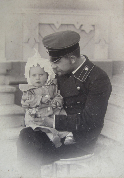 Fedor Buslov, a former member of the first Russian State Duma, with his son Disan in Chita city before Russian revolution